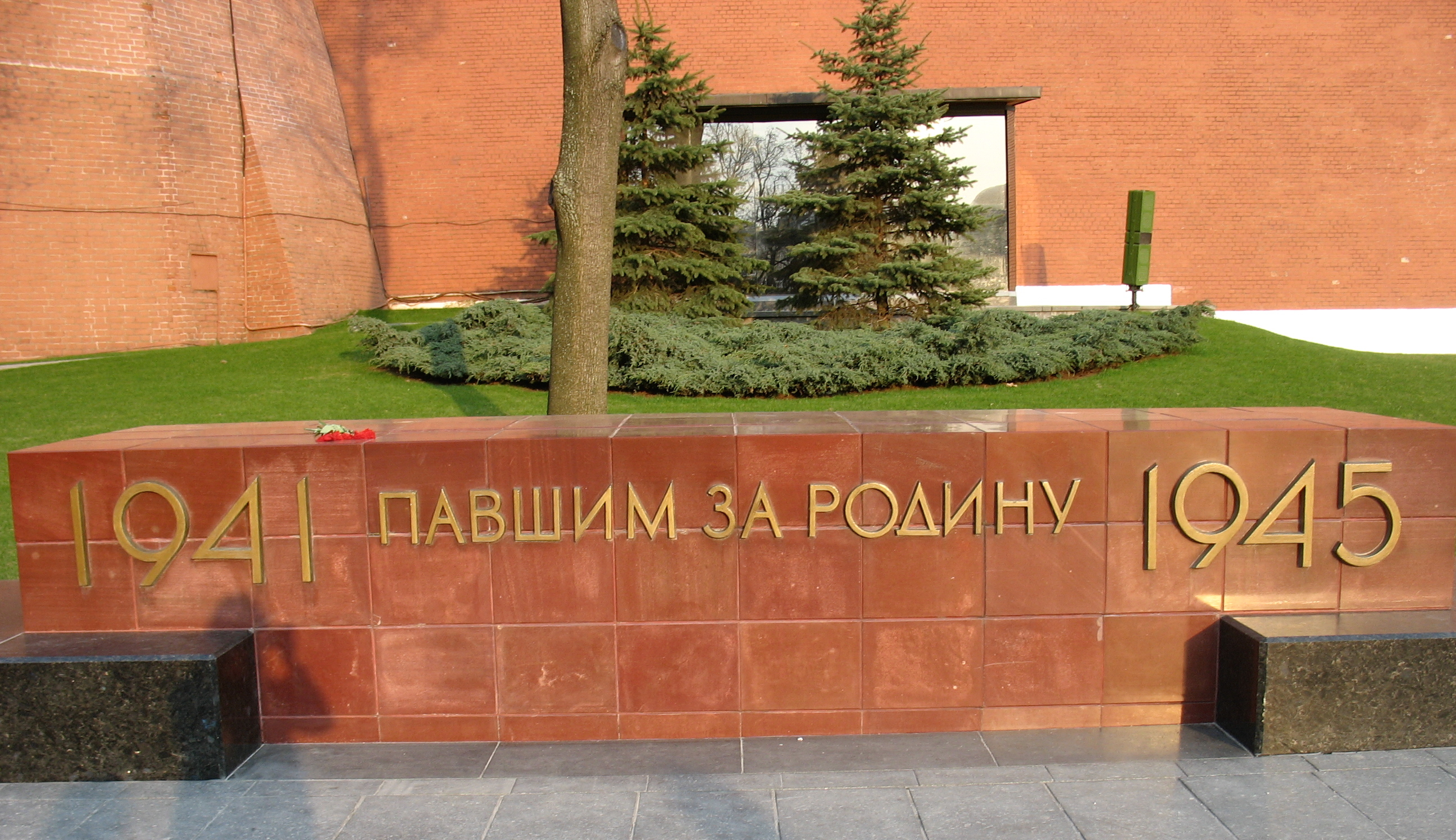 Tomb of the Unknown Soldier in Alexander Garden (near of Moscow Kremlin)